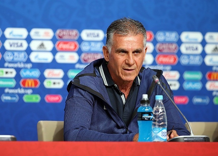 Iran-Morocco press conference, 2018 FIFA World Cup